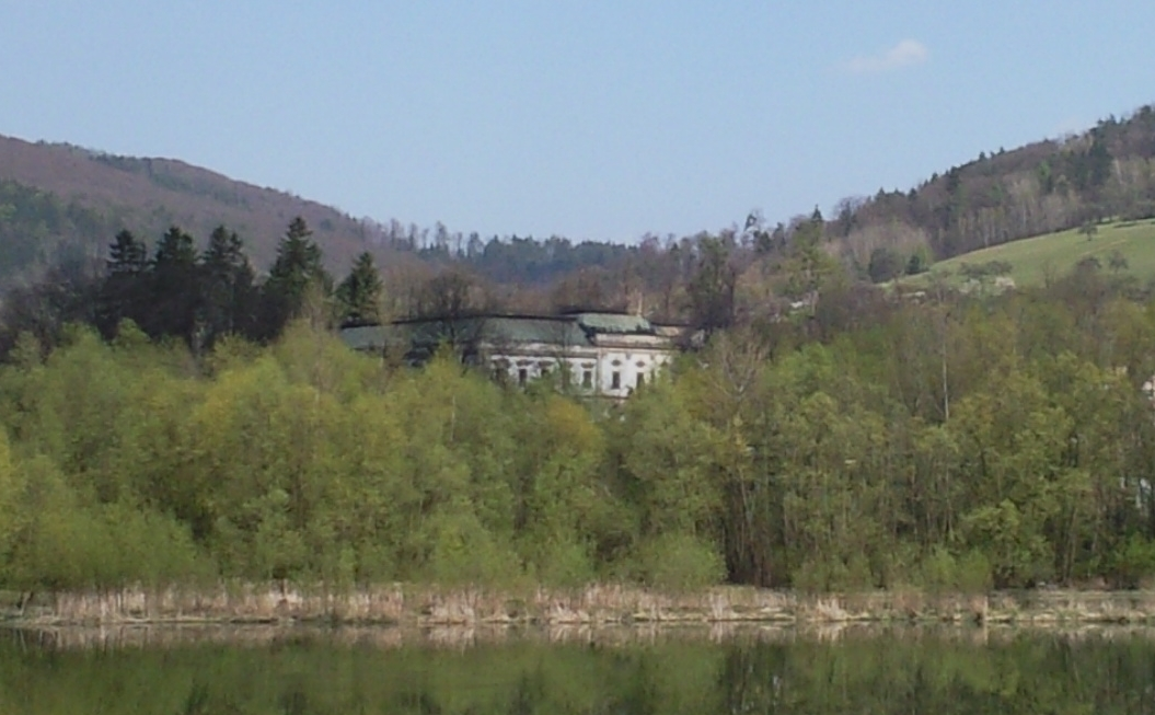 Manor house orlove from the bank of Vah.